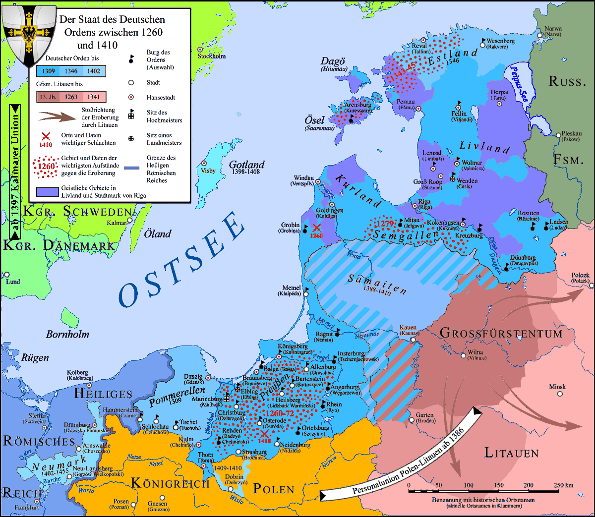 Map of the monastic state of the Teutonic Knights 1410